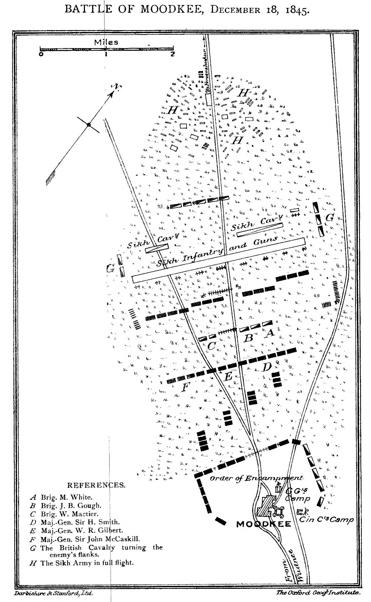 Map of the Battle of Moodkee.